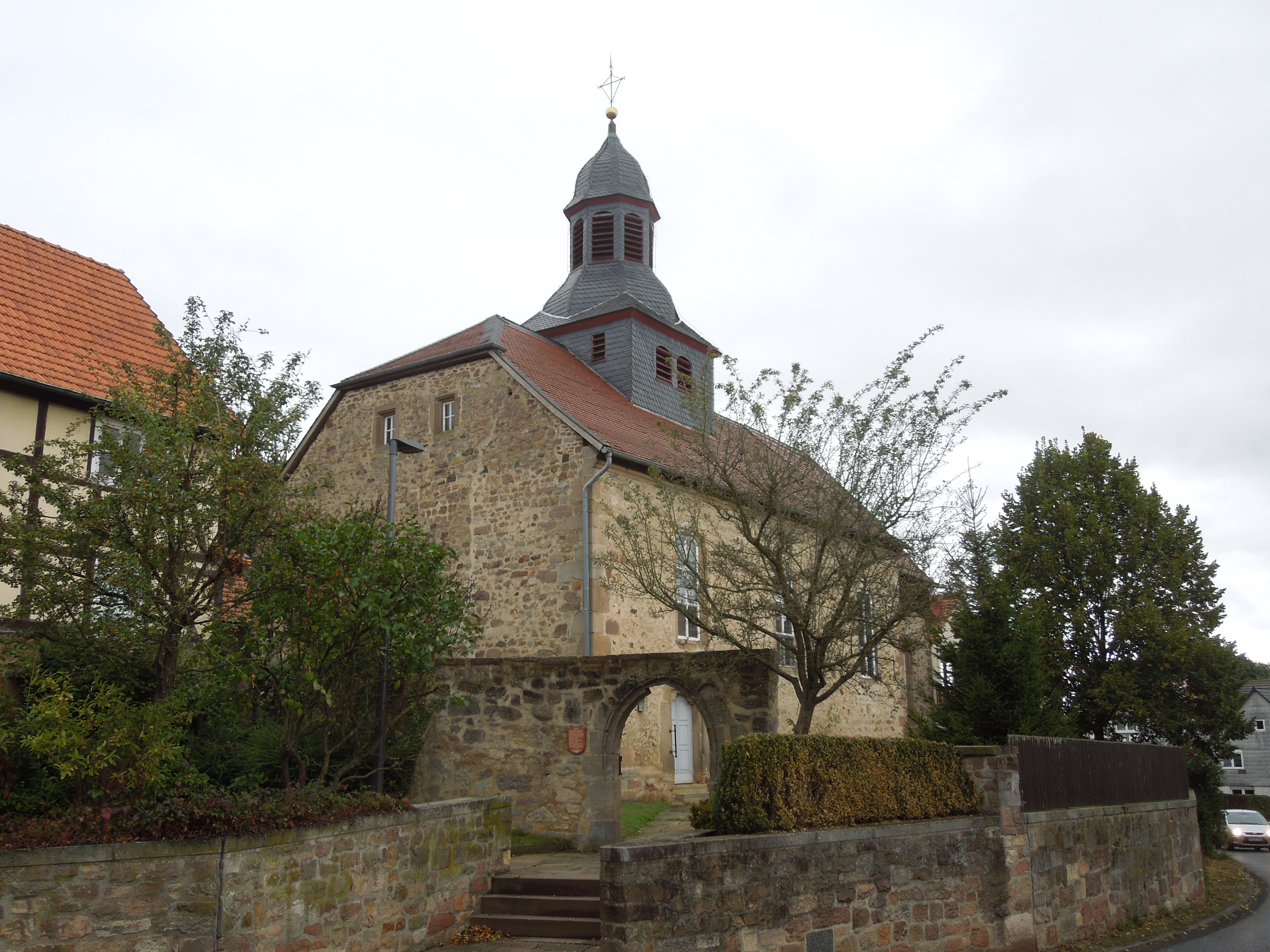 The protestant church in Willingshausen